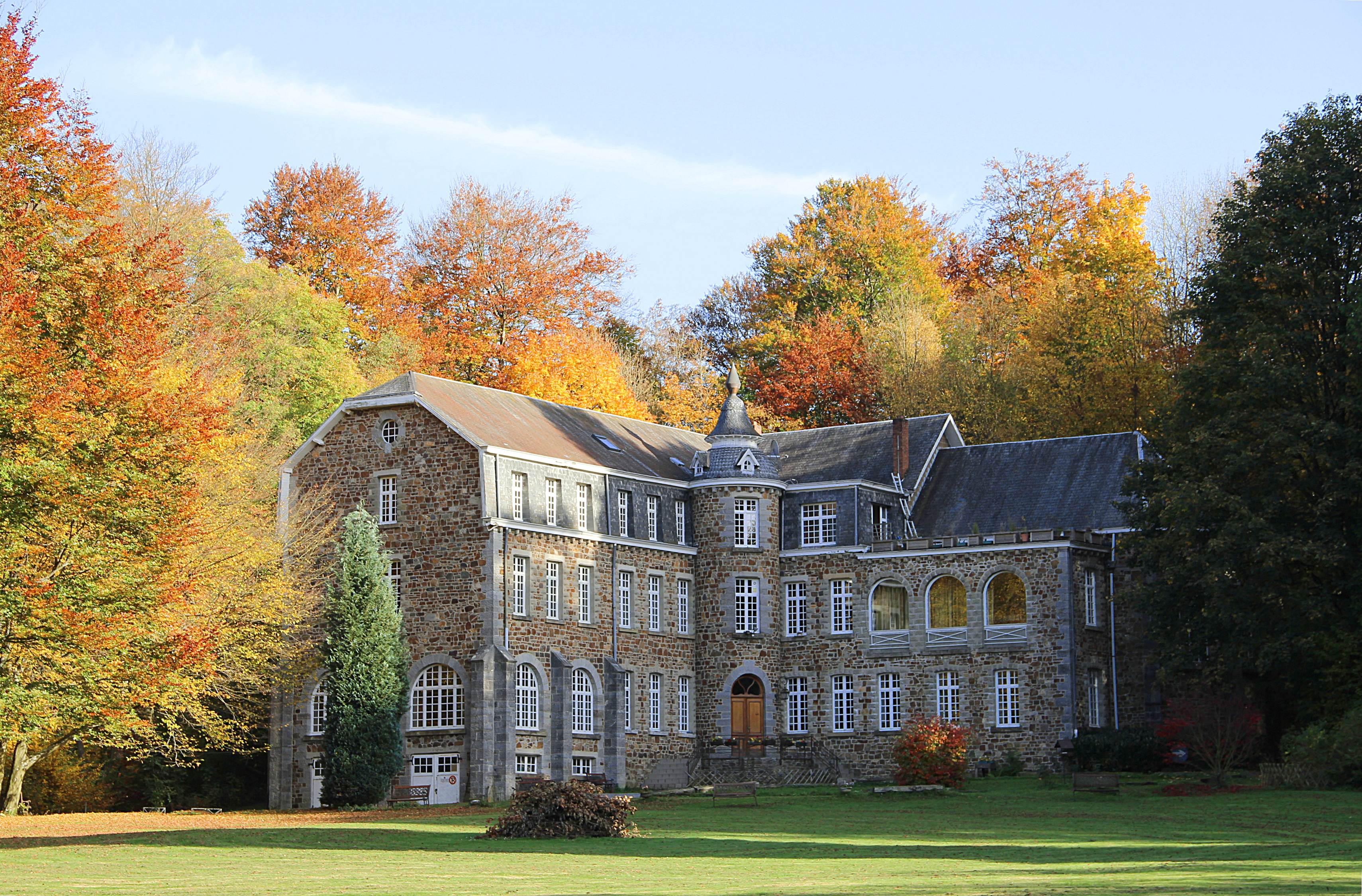 Saint-Hubert (Belgium): St. Michel – Castle of "La Diglette".